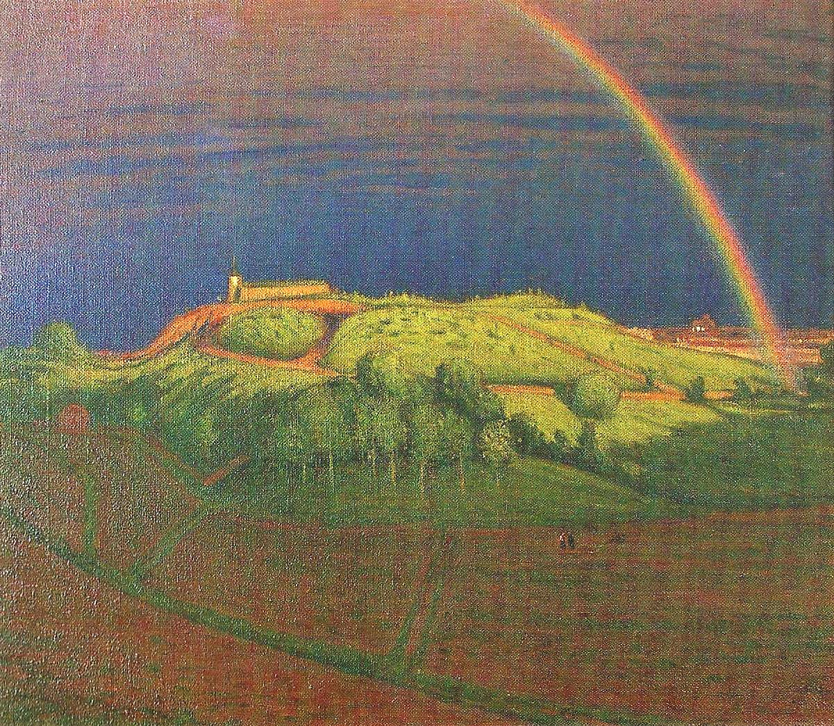 Oilpainting by the Swedish artist Karl Nordström (1855-1923)